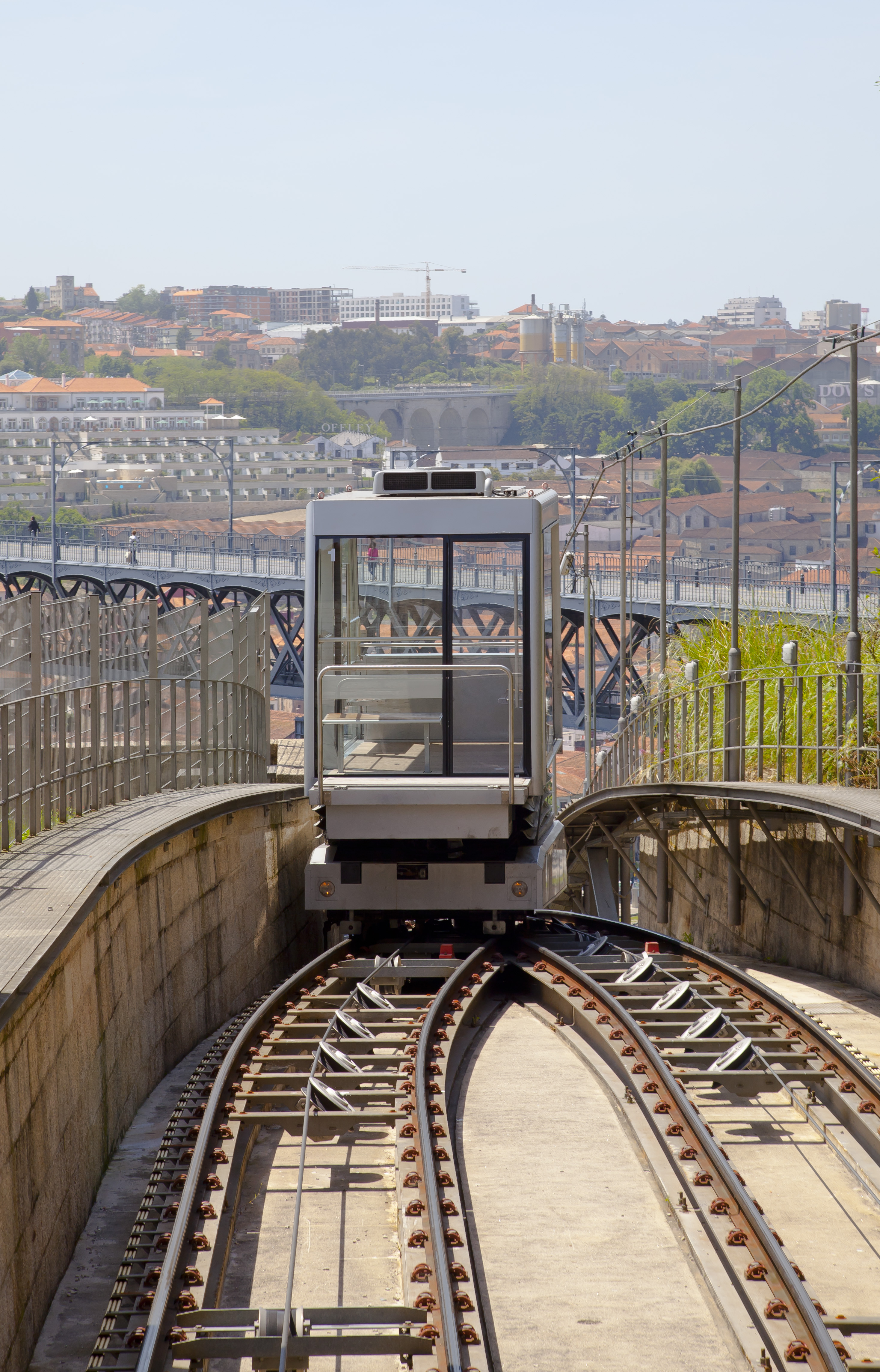 Funicular dos Guindais, Porto, Portugal